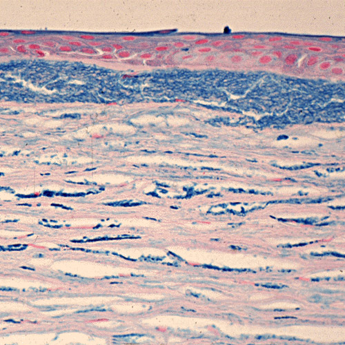 Macular corneal dystrophy. The abnormalities within the cornea are easily seen within the keratocytes and in a subepithelial extracellular location because they stain prominently with methods that demonstrate glycosaminoglycans. Hale colloidal iron stain. Klintworth Orphanet Journal of Rare Diseases 2009 4:7